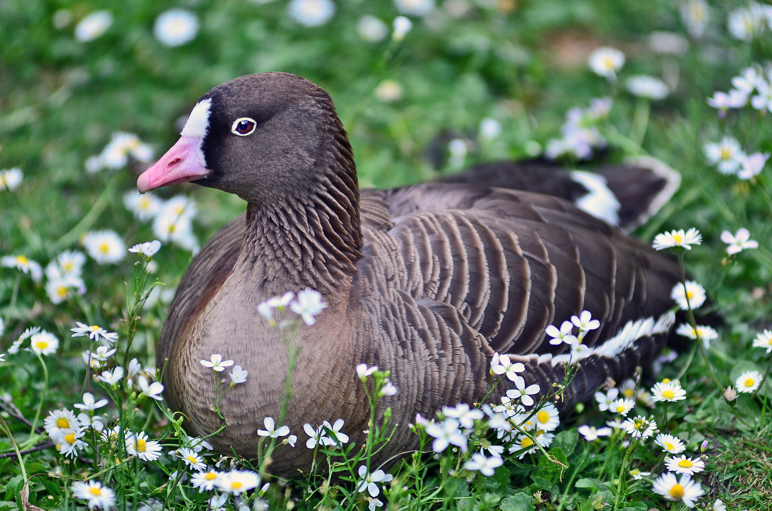 Lesser White-fronted Goose (Anser erythropus) at Weltvogelpark Walsrode (Walsrode Bird Park, Germany)